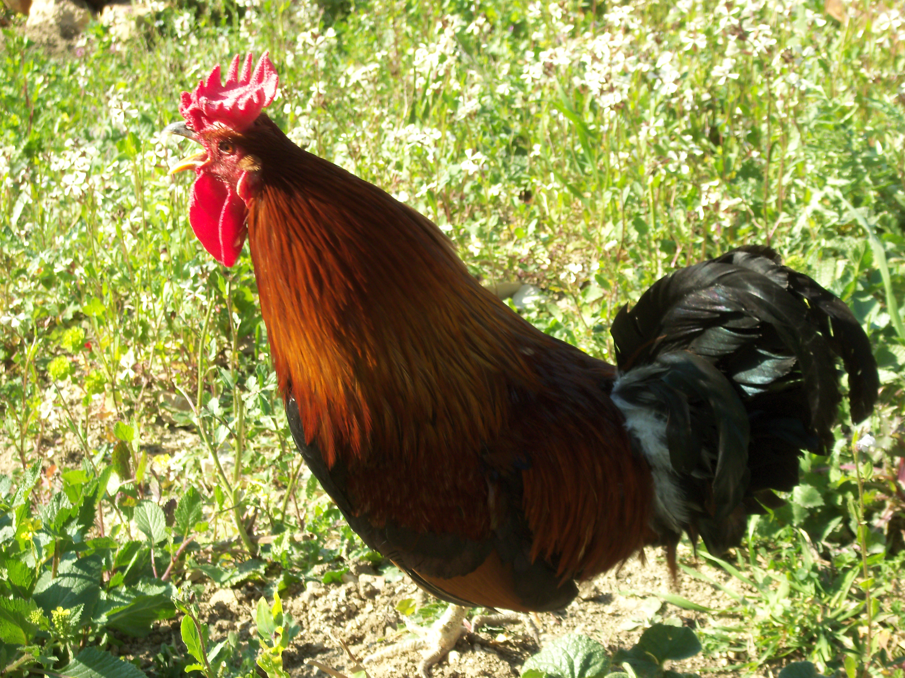 Purebred Siciliana chicken with typical double comb.